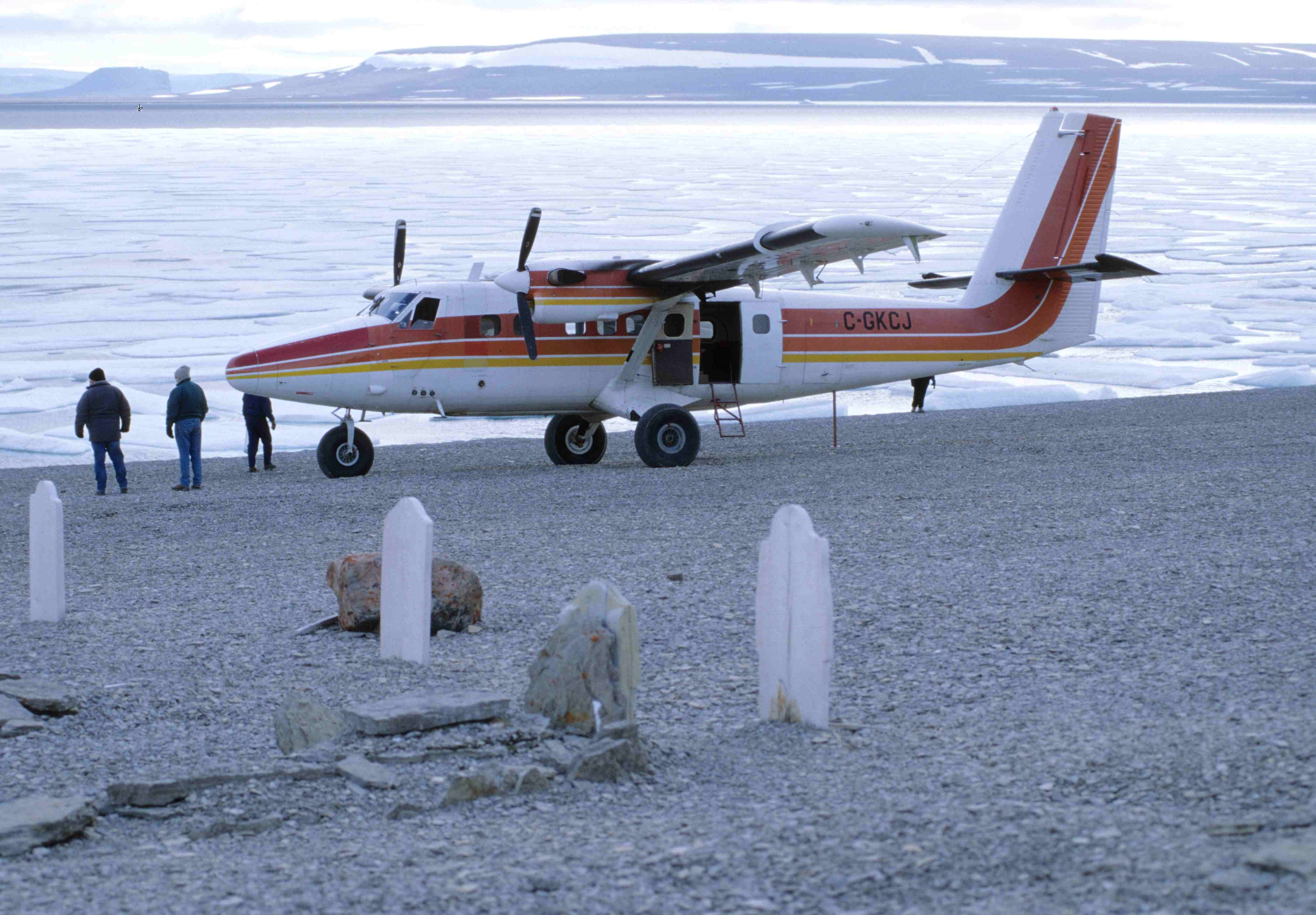 De Havilland Canada DHC-6 “ Twin Otter” (C-GKCJ) on Beechey Island at seamen graves of John Franklin expedition (Nunavut, Canada)